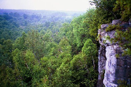 View from the Niagara Escarpment along the Bruce Trail.